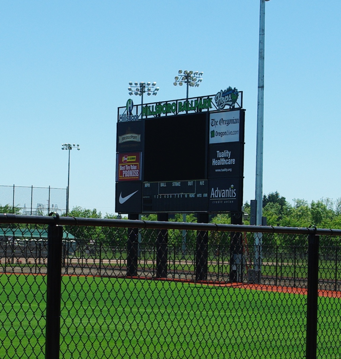 Nearly complete Hillsboro Ballpark in June 2013 in Hillsboro, Oregon.